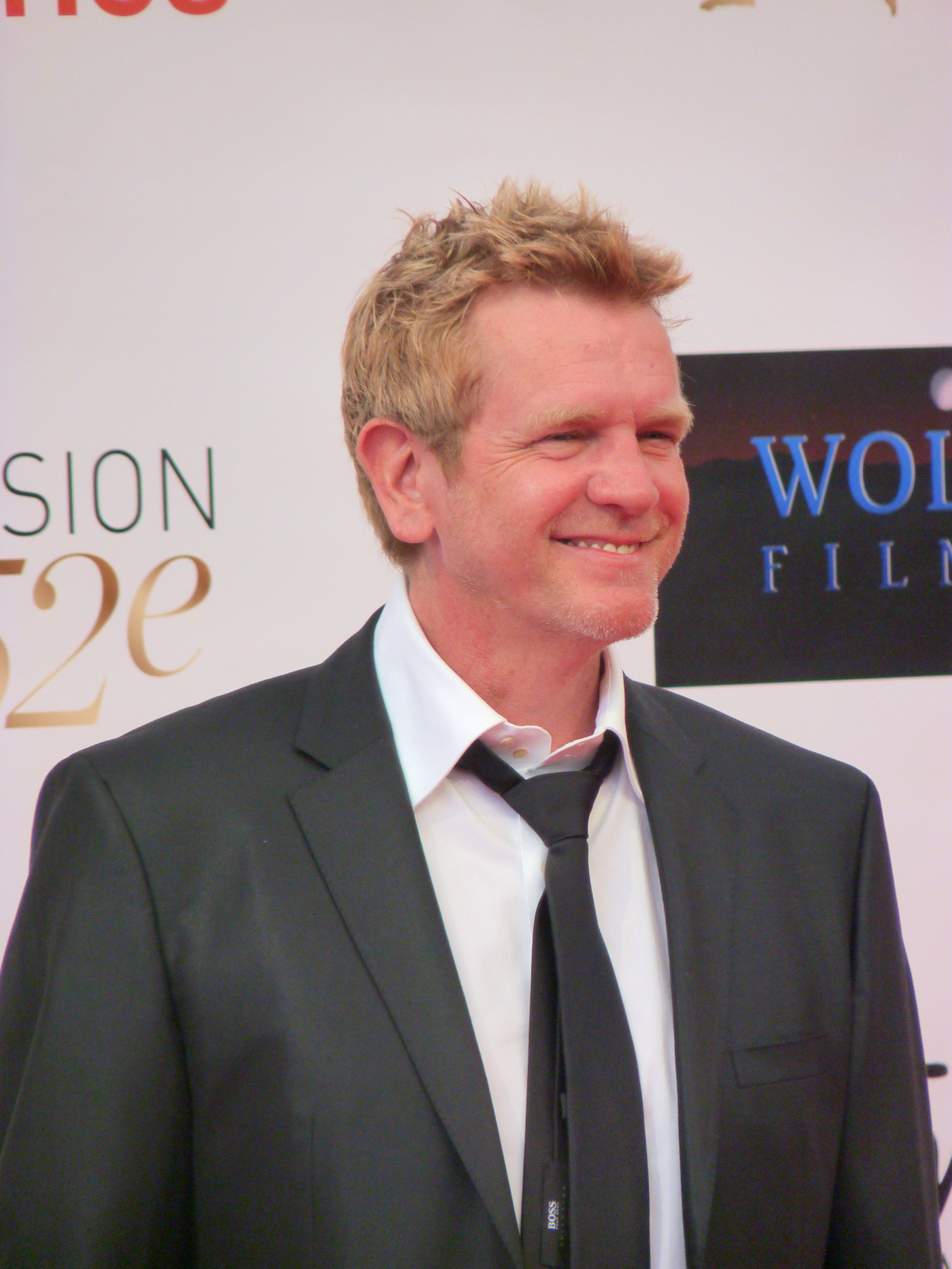 Xavier Deluc at the 2012 Monte-Carlo Television Festival.